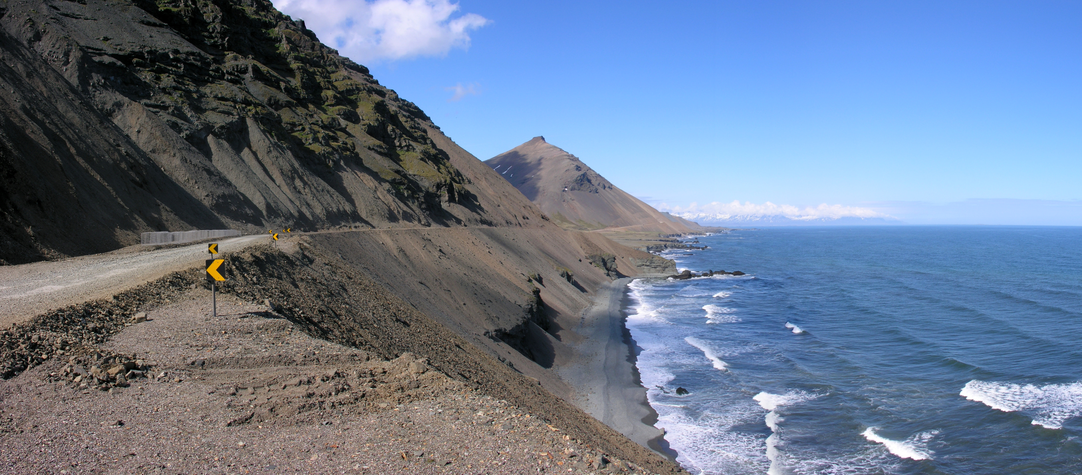 Road No 1 at Krossanes